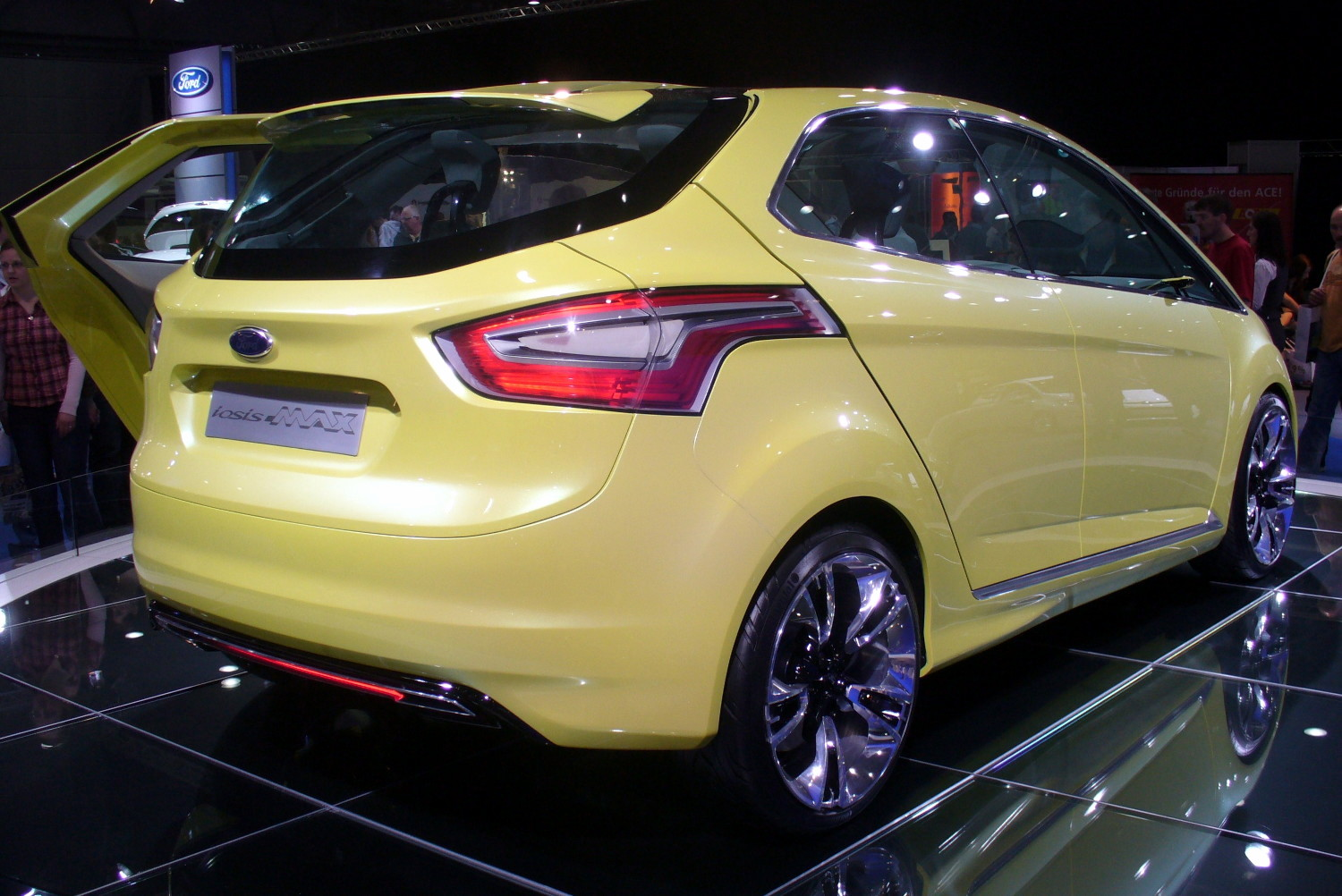 Ford Iosis Max